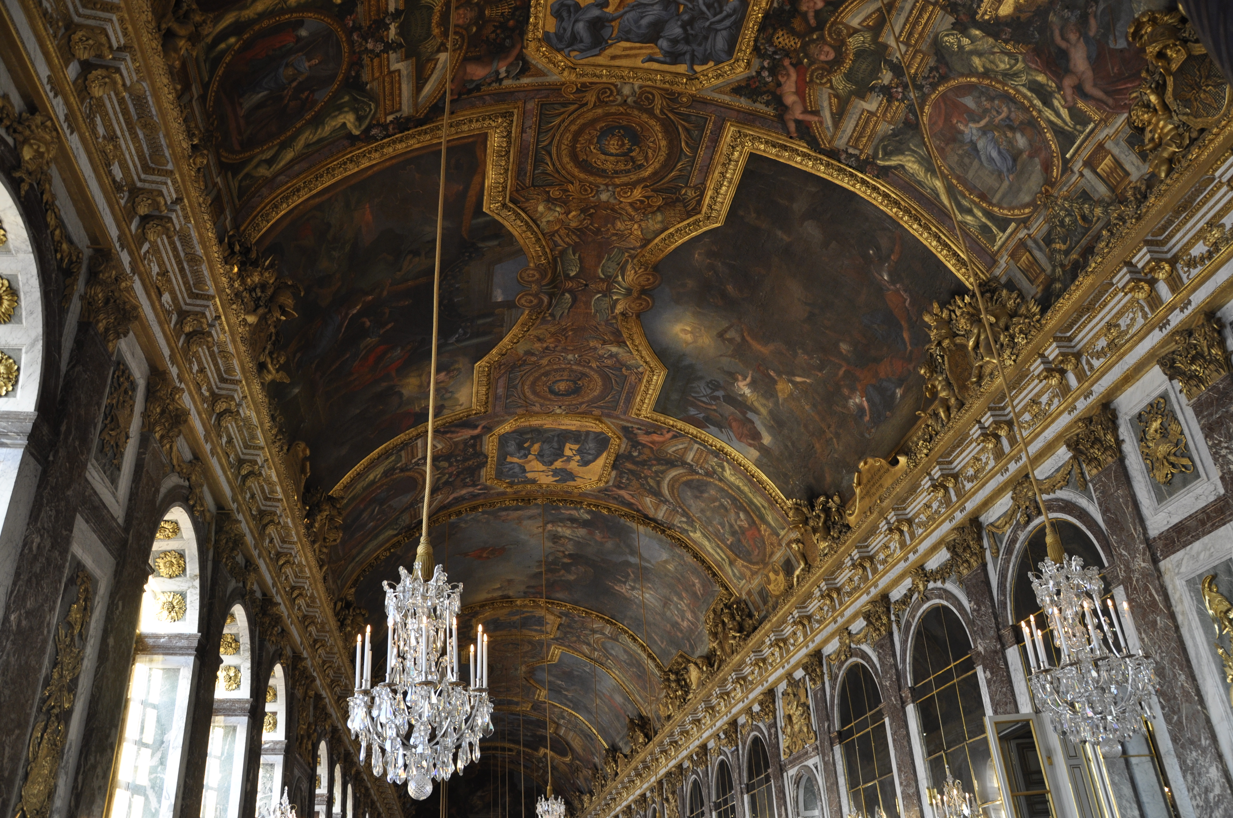 Overview of the paintings in the Hall of Mirrors of the Palace of Versailles.